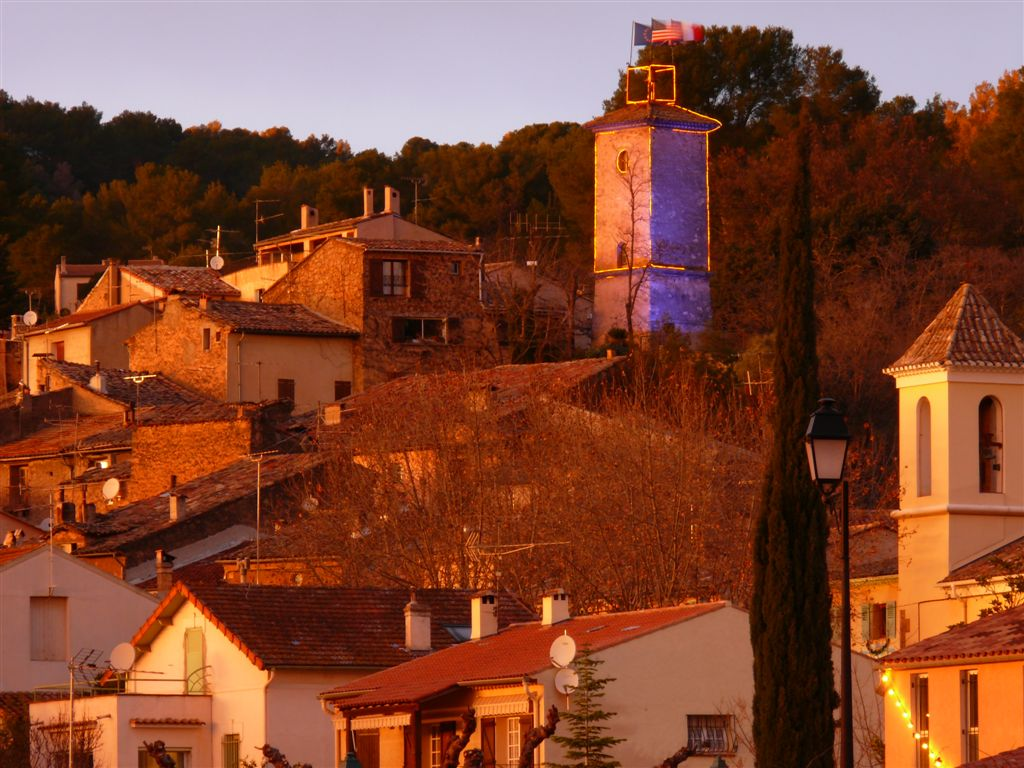 La Motte en provence 83920 by ChmProd